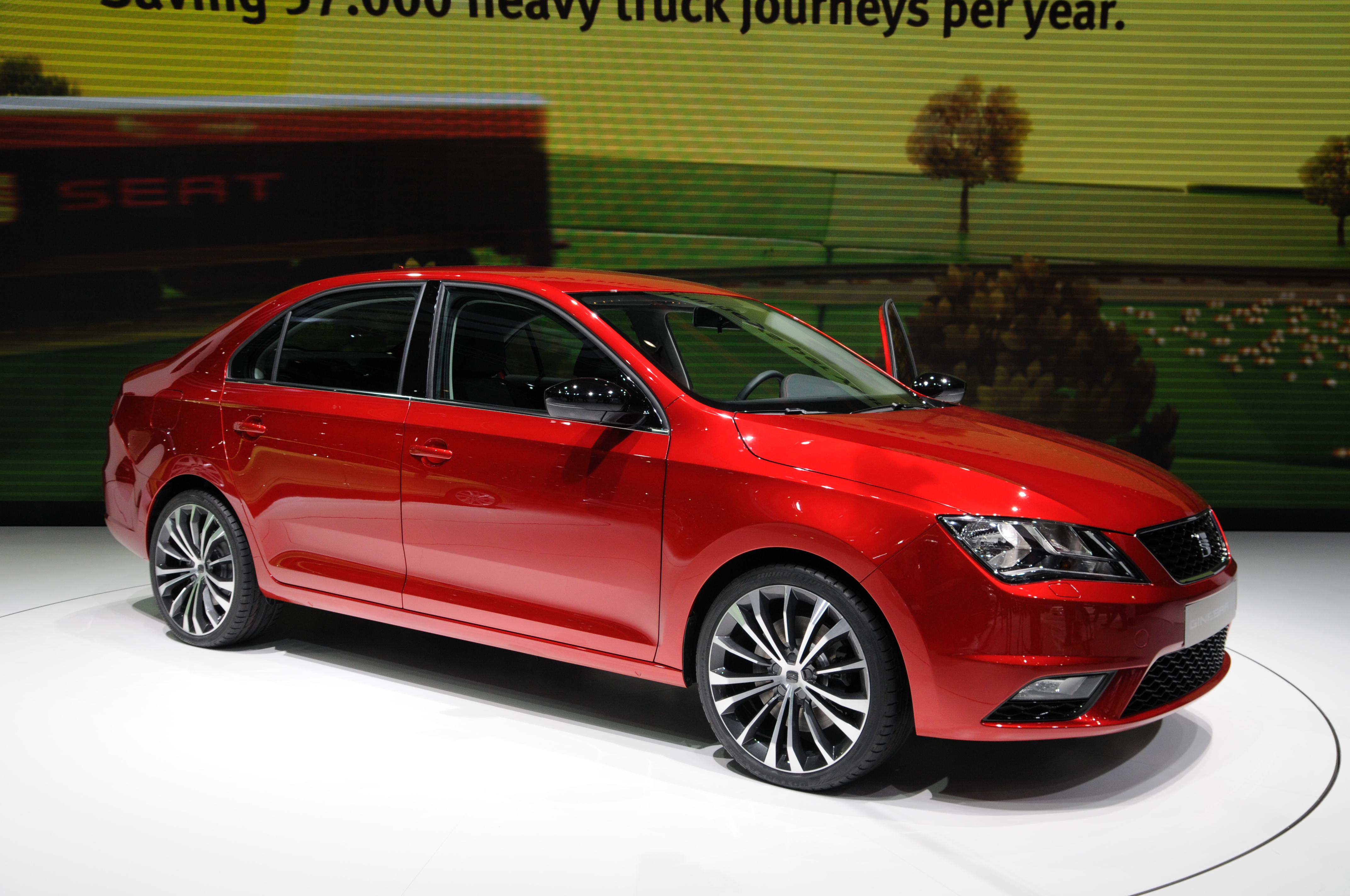 Geneva Motor Show 2012 (photos taken on the second press day)